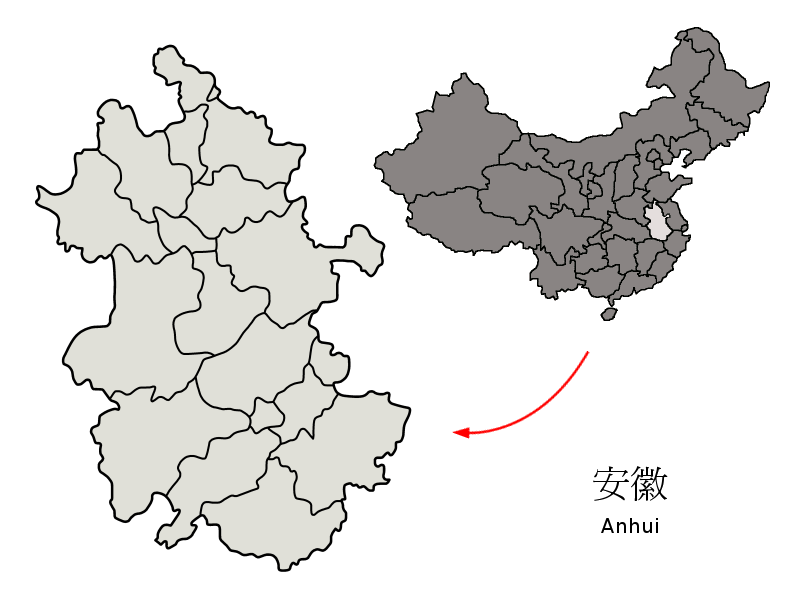 Prefectures of Anhui Province of China Map drawn in december 2007 using various sources, mainly : Anhui Province administrative regions GIS data: 1:1M, County level, 1990 Anhui Counties map from